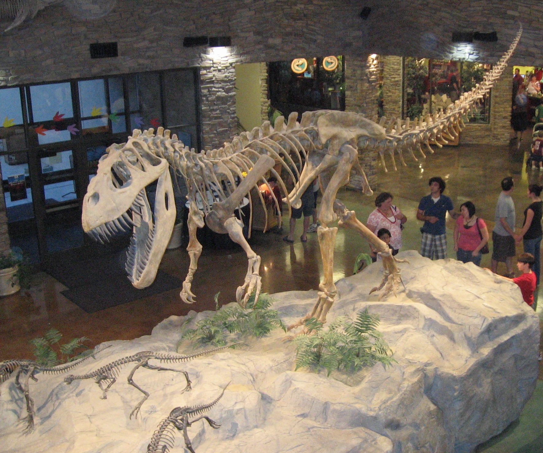 This is the main lobby of the Museum of Ancient Life at Thanksgiving Point in Lehi, Utah, U.S.A. It displays a depiction of a Torvosaurus dinosaur skeleton pursuing a herd of Othnielosaurus.